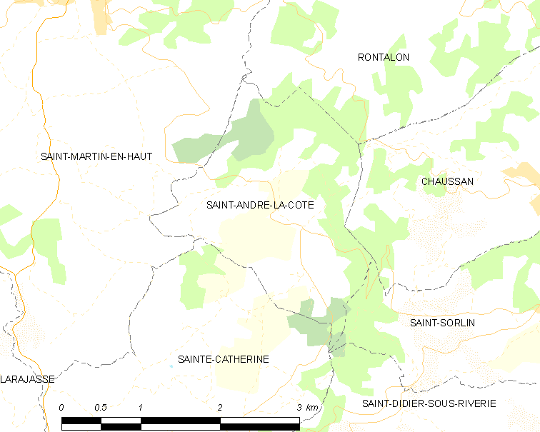 Map of French municipality